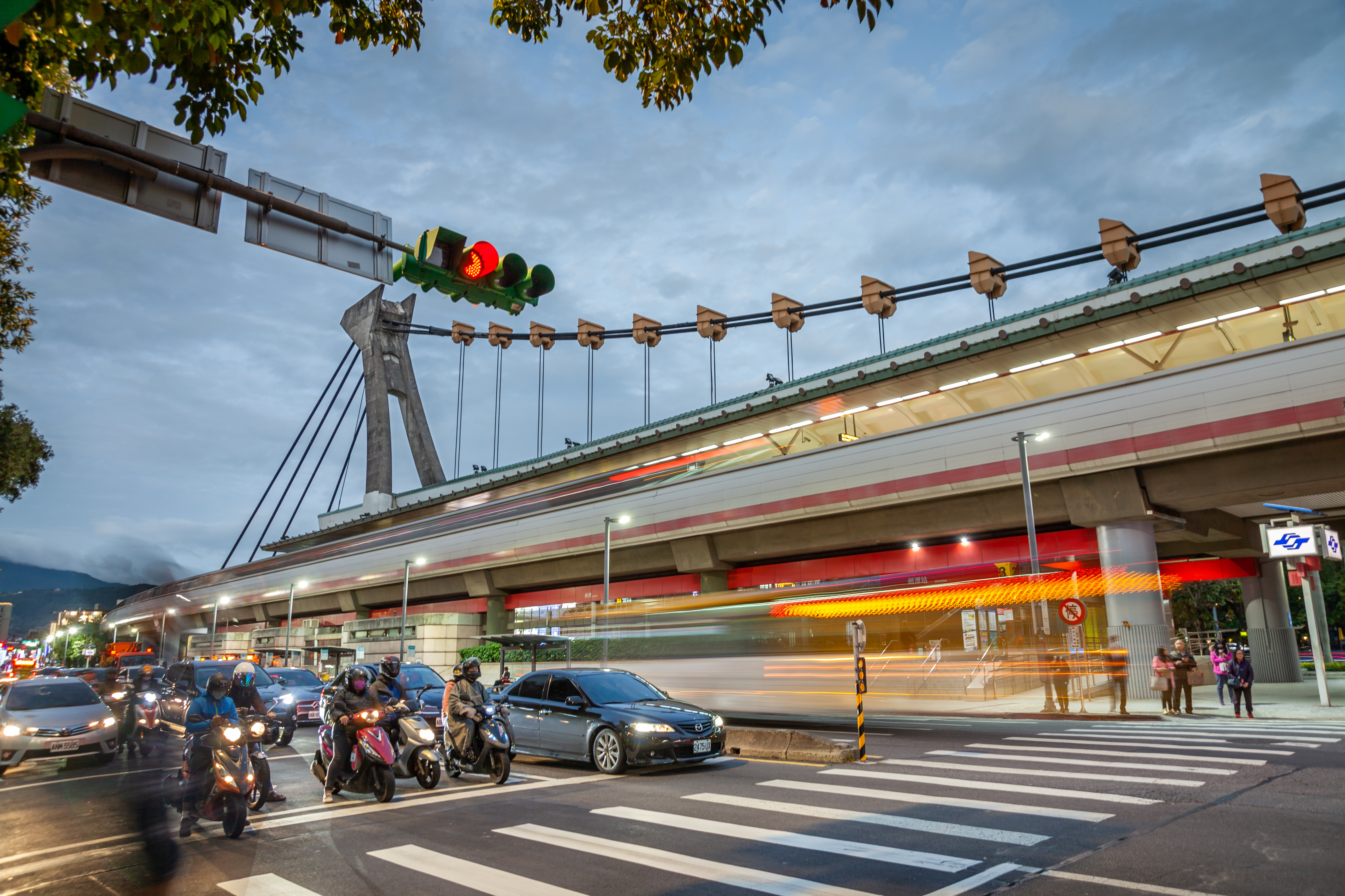 Cloudy evening at Taipei MRT Jiantan Station